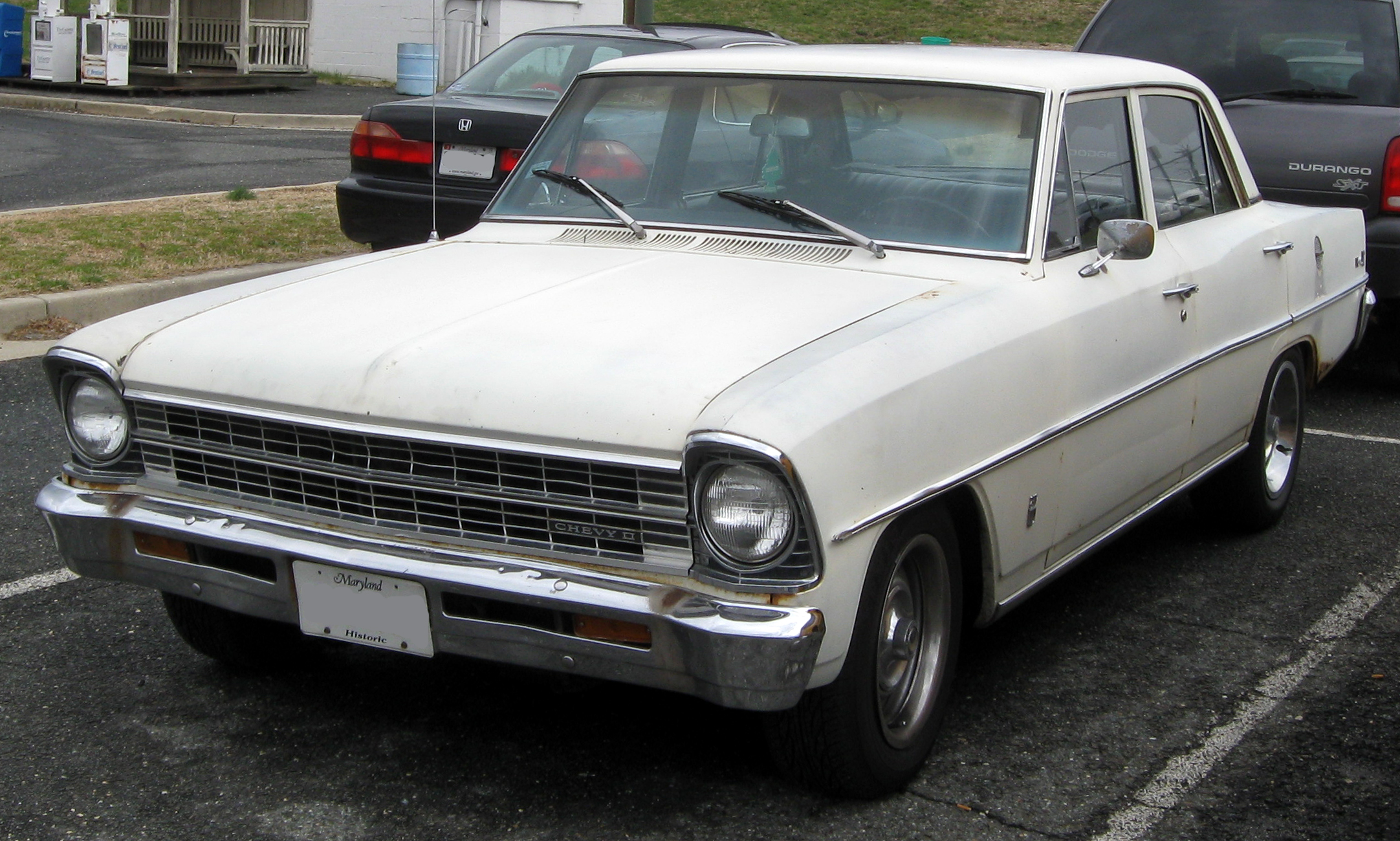 Chevrolet Nova photographed in Upper Marlboro, Maryland, USA.